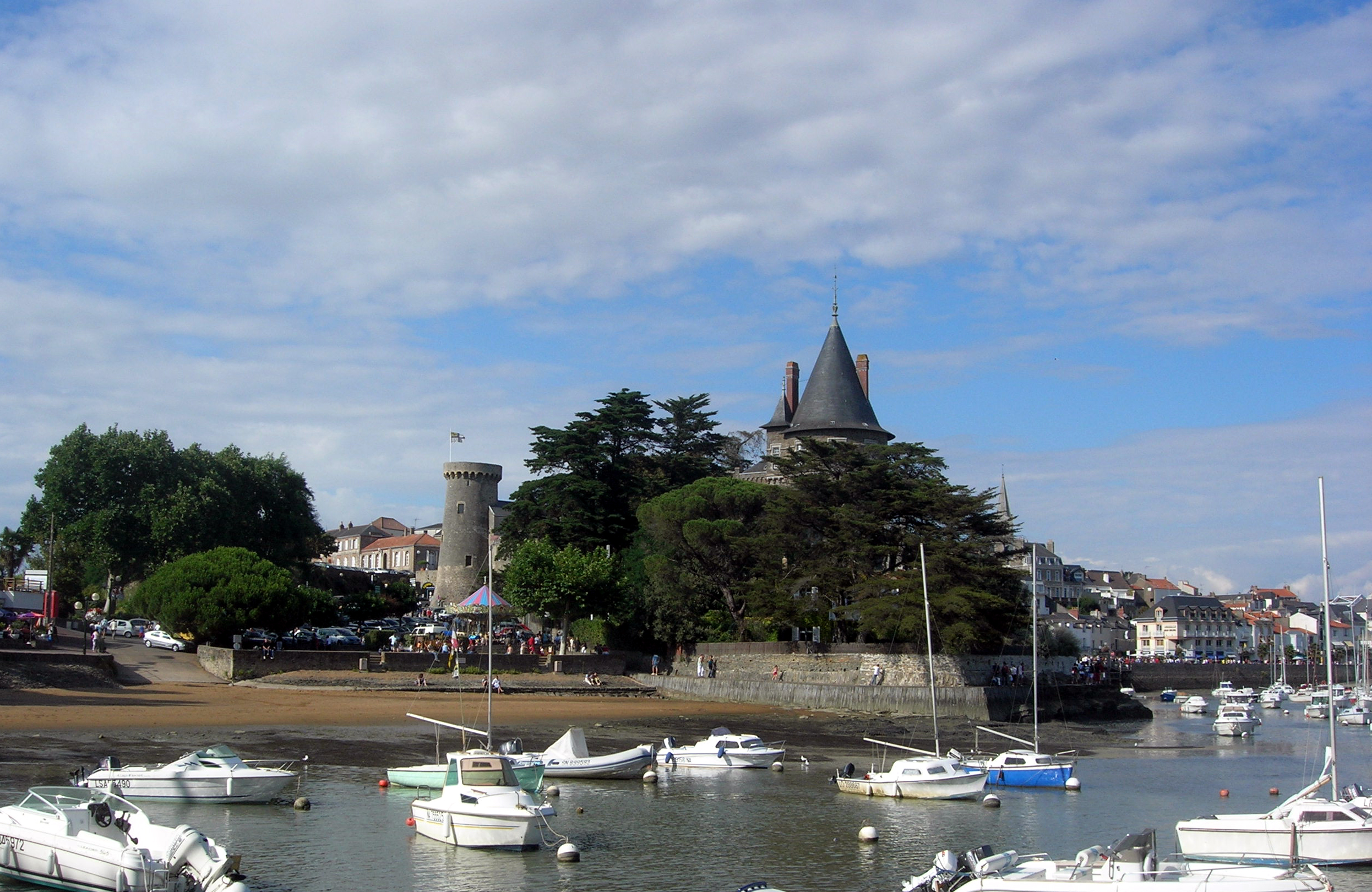 Description =Pornic et son chateau Source =Photo taken by Remi Jouan Date =Aout 2006 Author =Remi Jouan